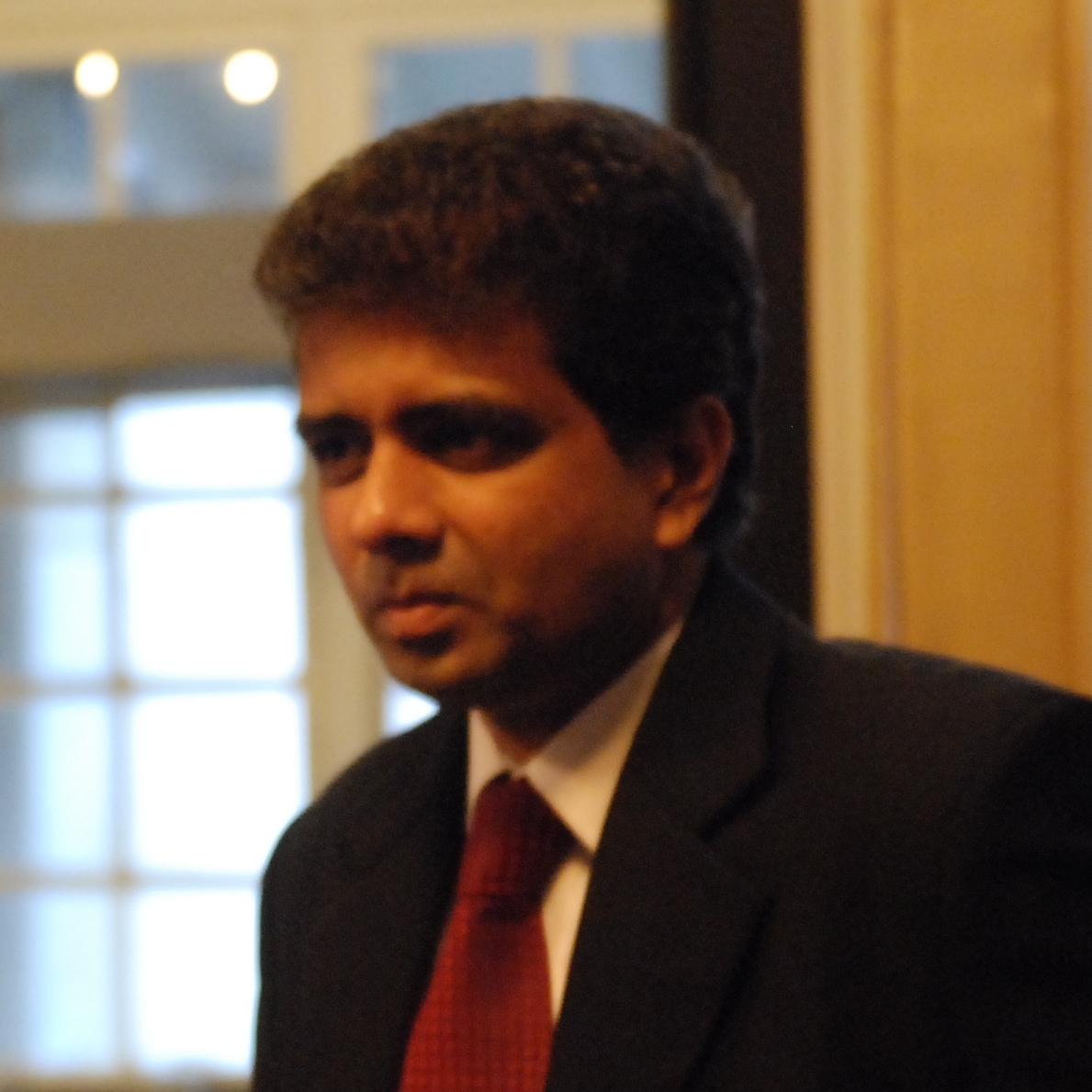 Photograph of Director/Group Chief Executive of Dialog Axiata,Dr.Hans Wijayasuriya